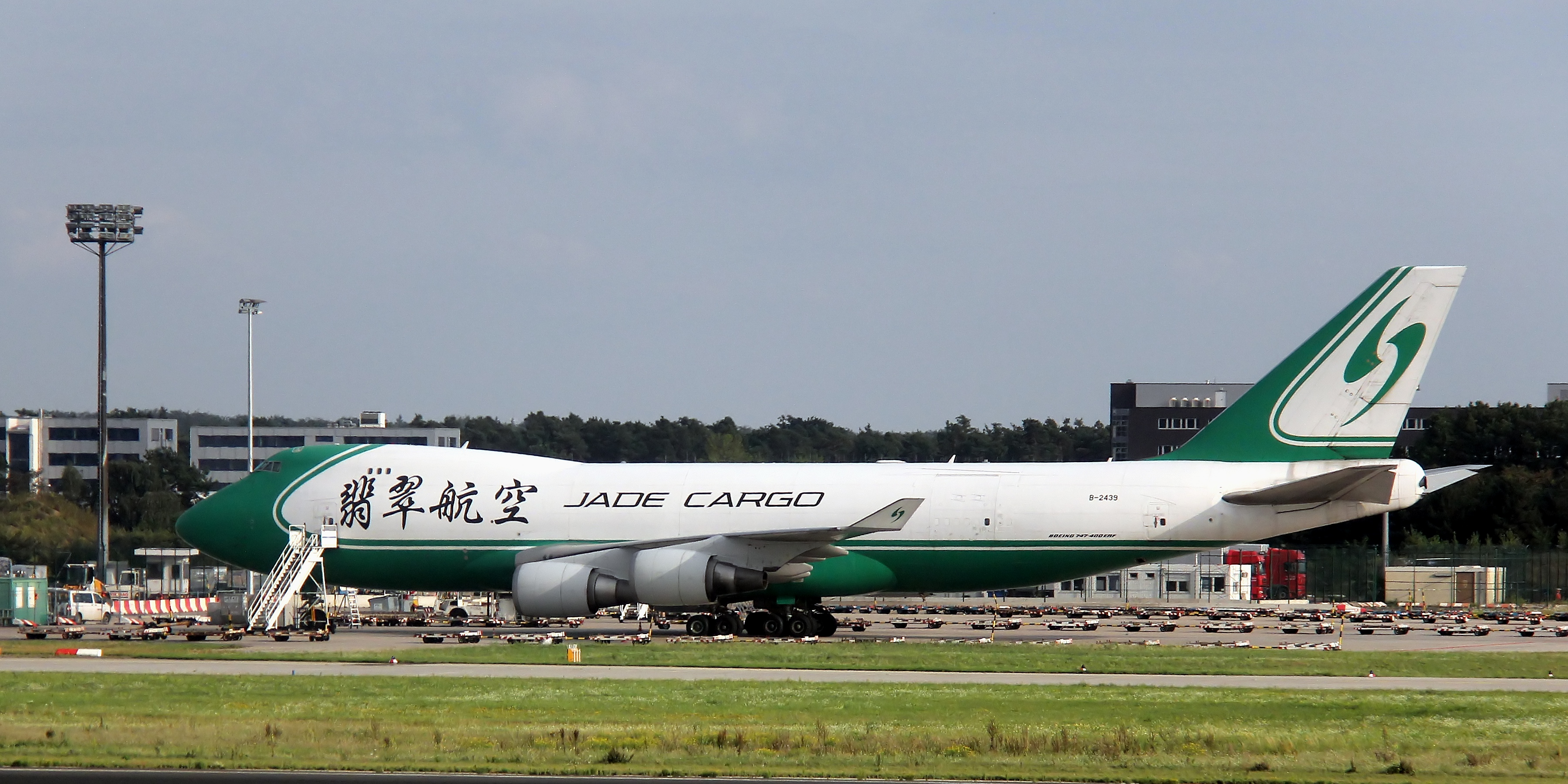 Jade Cargo - Boeing 747-400ERF - Airport Frankfurt am Main - Registration: B-2439